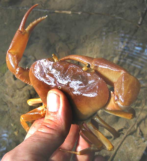 Unidentified freshwater crab that inhabits pesticide-polluted canals in Chiapas, Mexico.